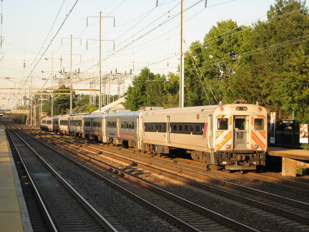 NJ Transit #5003 is at the tail end of Train #3896, at Princeton Junction.